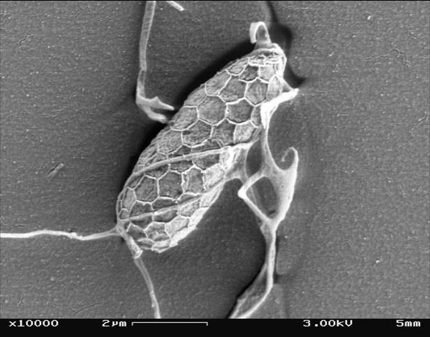 Aplanochytrium, Ectoplasmic network forming basket structure surrounding vegetative cells. This characteristic is unique to members of the genus Aplanochytrium.